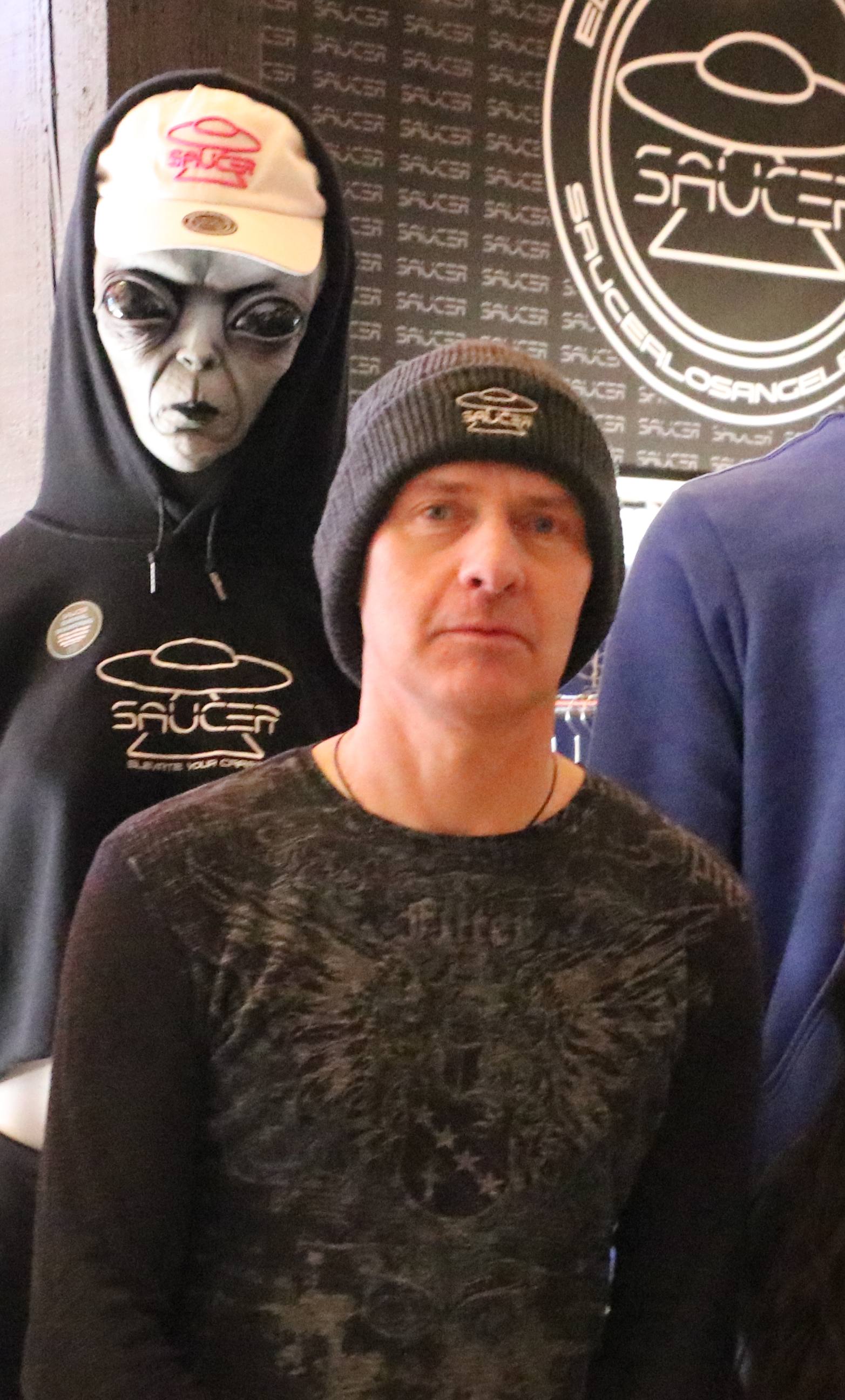 Author and Ufologist Nick Redfern at Alien Snowfest 2019 in Big Bear Lake.